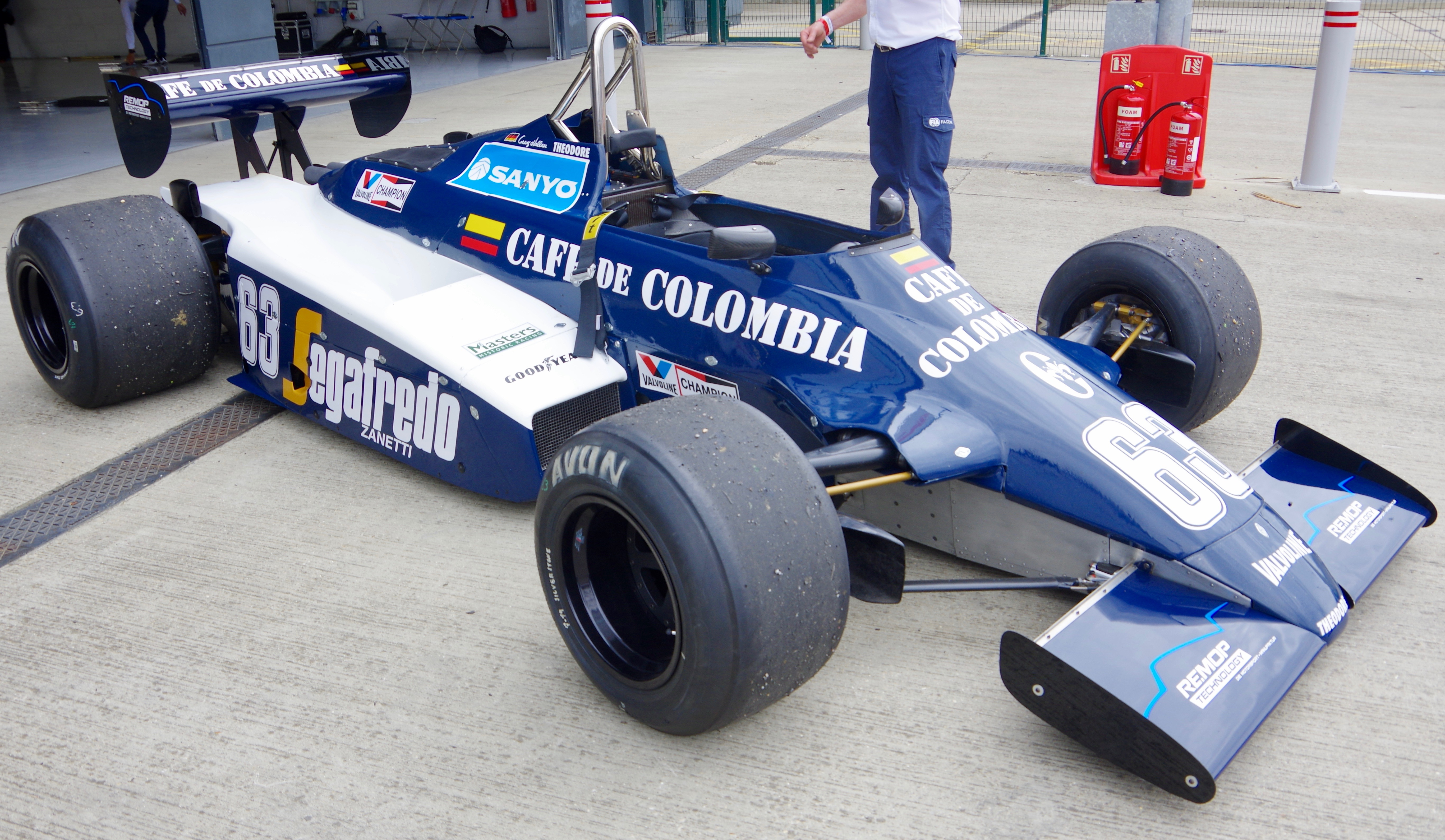 Roberto Guerrero Theodore N183 2019 Silverstone Classic.